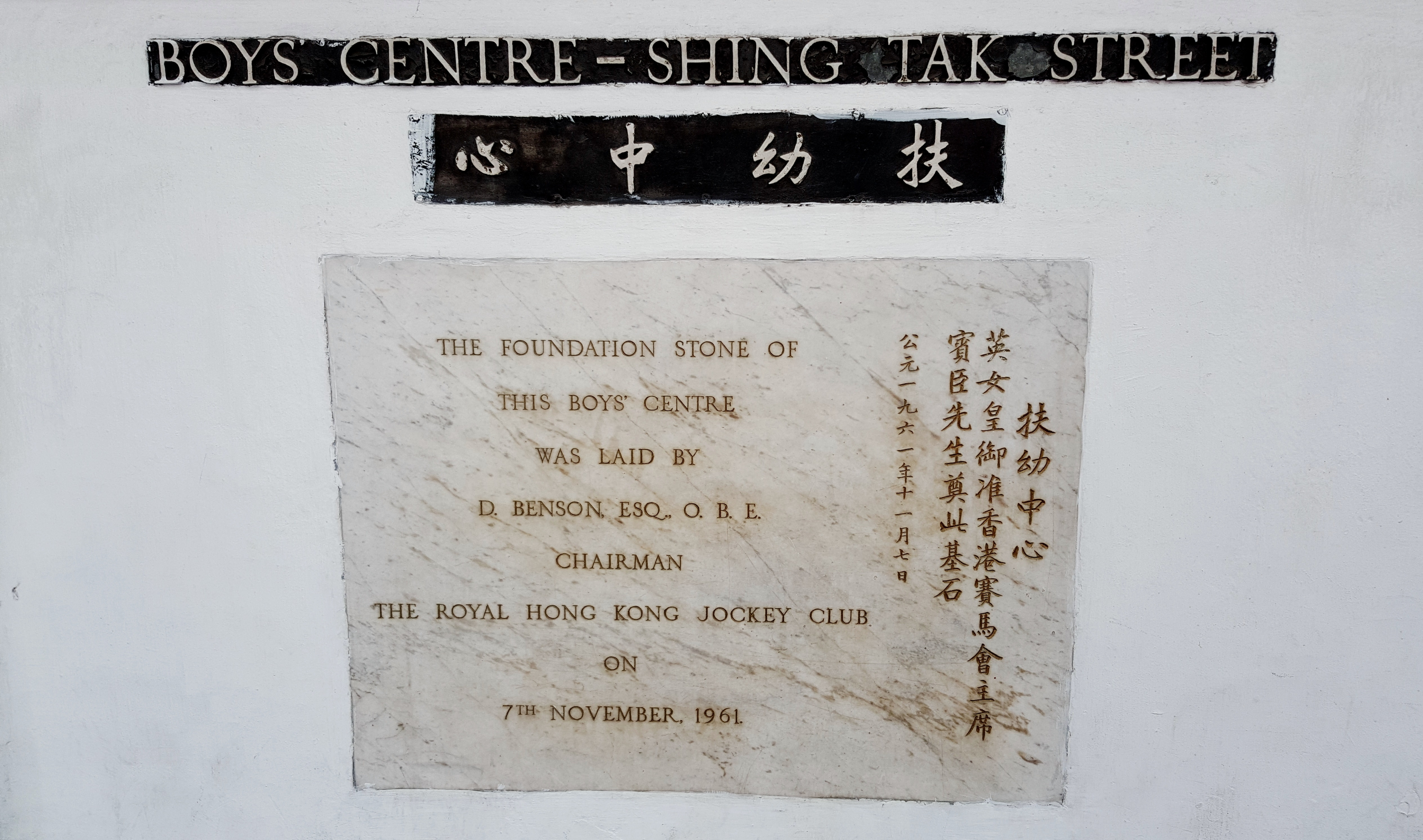 Foundation stone of Shing Tak Street Boy's Centre as laid by Mr Donovan Benson, Esq., O.B.E. on 7th November 1961. 中文（香港）: 盛德街扶幼中心奠基石，由賓臣先生，O.B.E.於1961年11月7日主持奠基